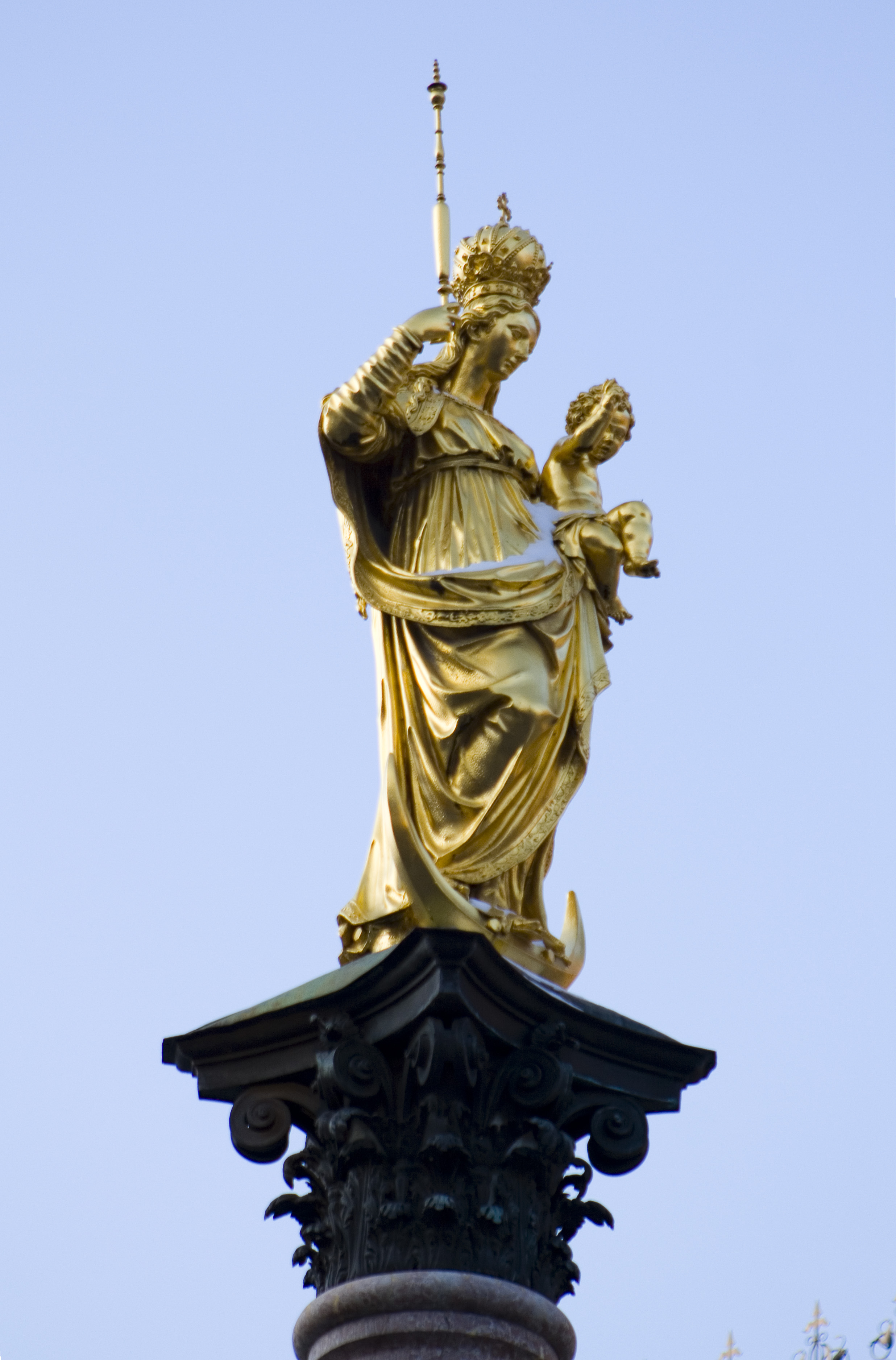 Mariensäule, Munich, Germany